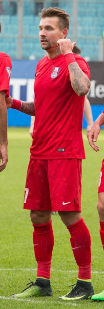 Yuri Lebedev with FC Mordovia Saransk in a game against FC Dynamo Moscow.